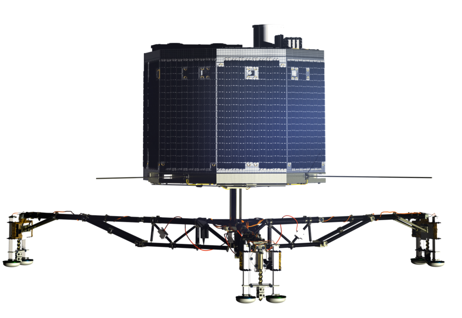 Artist's impression of the Philae lander, on a white background.